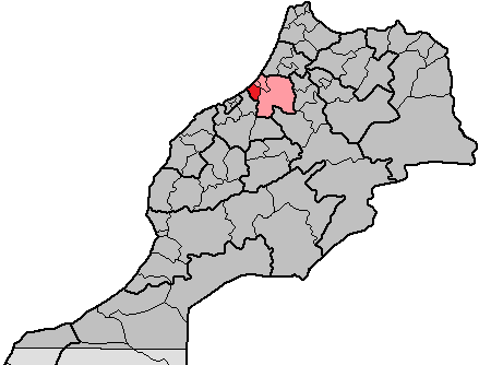 Location of the prefecture Skhirate-Témara within the region Rabat-Salé-Zemmour-Zaër, Morocco. In total, Morocco has 16 regions, subdivided into 62 provinces and 13 prefectures.